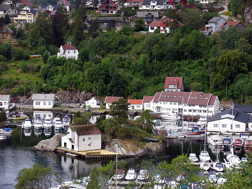 Photo from the harbour of Strusshamn